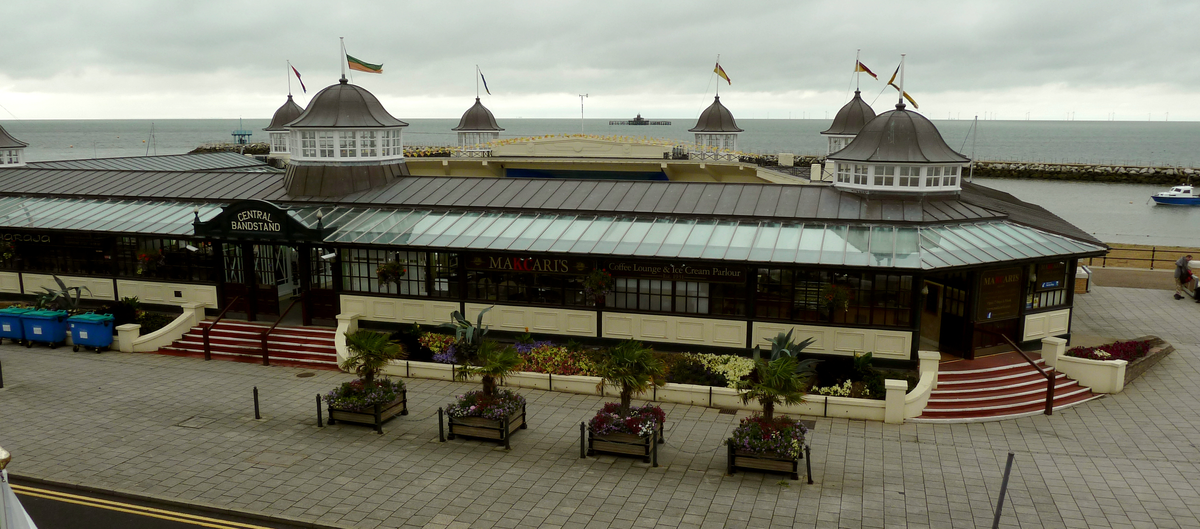 The Central Bandstand, Herne Bay, Kent, England. Built 1924. Showing view from above.